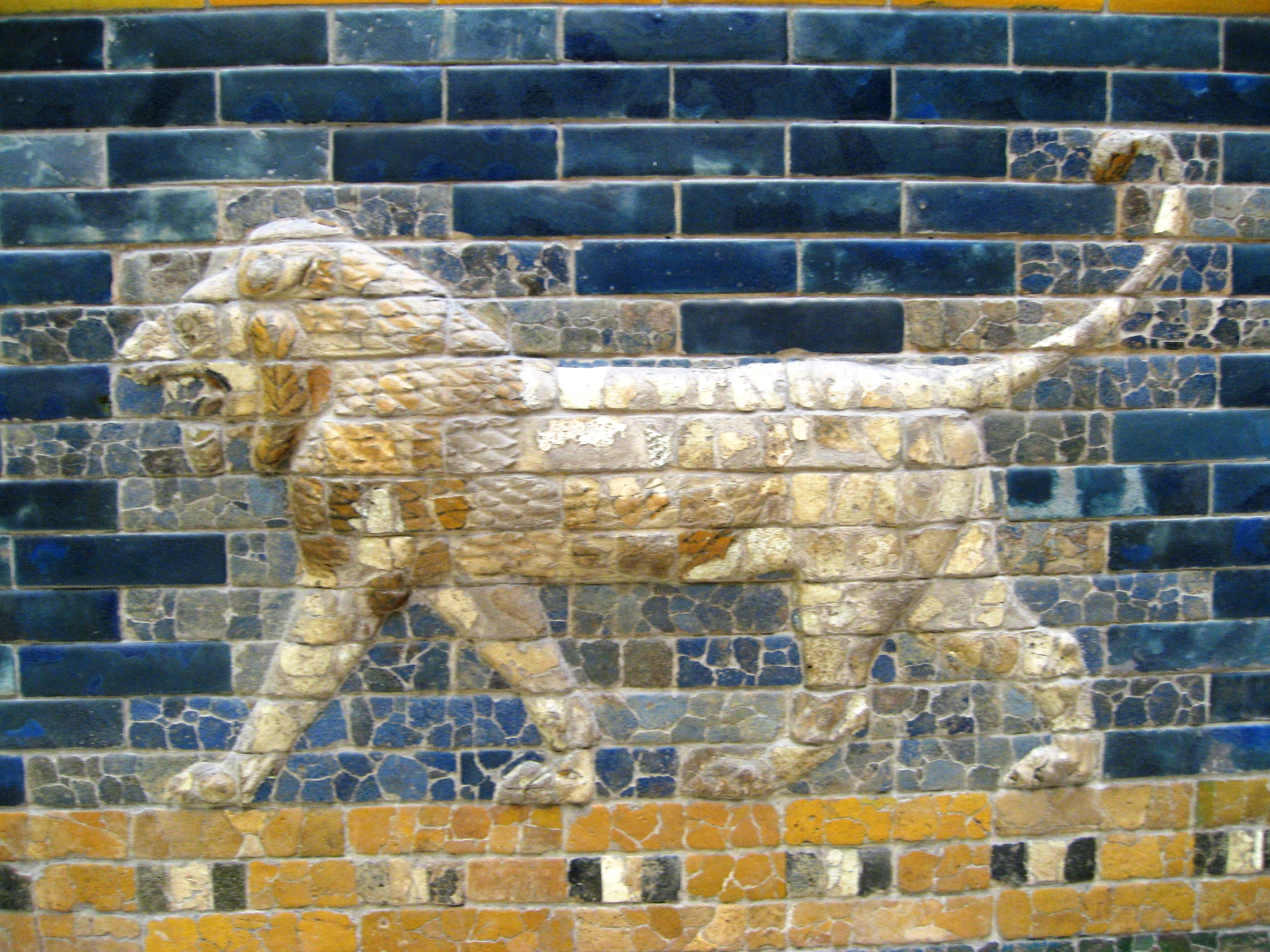 Detail of a lion from the facade of the Throne Room. Babylon, coloured, glazed bricks. 604-562 BCE. The Throne-Room was situated in the third courtyard complex of the royal palace. Its 56 m wide facade was decorated with coloured, glazed bricks. A tentative reconstruction show the composition of the upper part of the facade, including stylised palms and patterned registers. Two original sections are displayed on the left next to the Ishtar Gate. The lower part of the facade with representations of striding lions was predominantly reconstructed from the original baked brick fragments. The frieze of lions was presumably arranged symmetrically so that the animals faced toward the central main entrance to the throne-room (cf. the direction of movement in the reconstruction opposite). The throne-room was excavated by Robert Koldewey from 1899 to 1917. It was used as an official reception room.